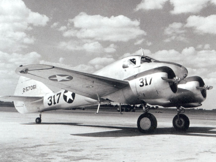 Turner Army Airfield - Curtiss-Wright AT-9 Jeep on Parking Ramp